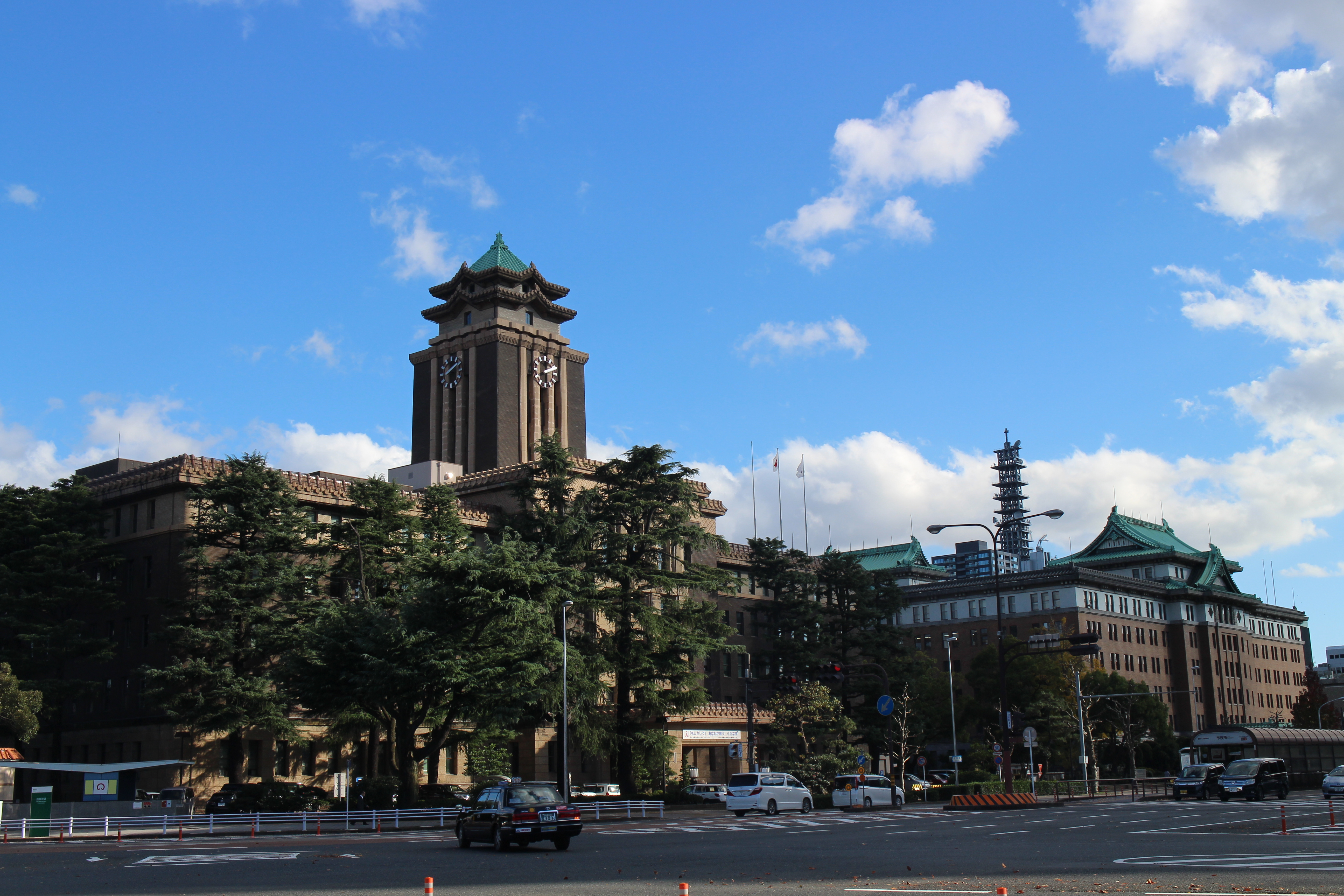 Nagoya City Hall & Aichi Prefectural Government